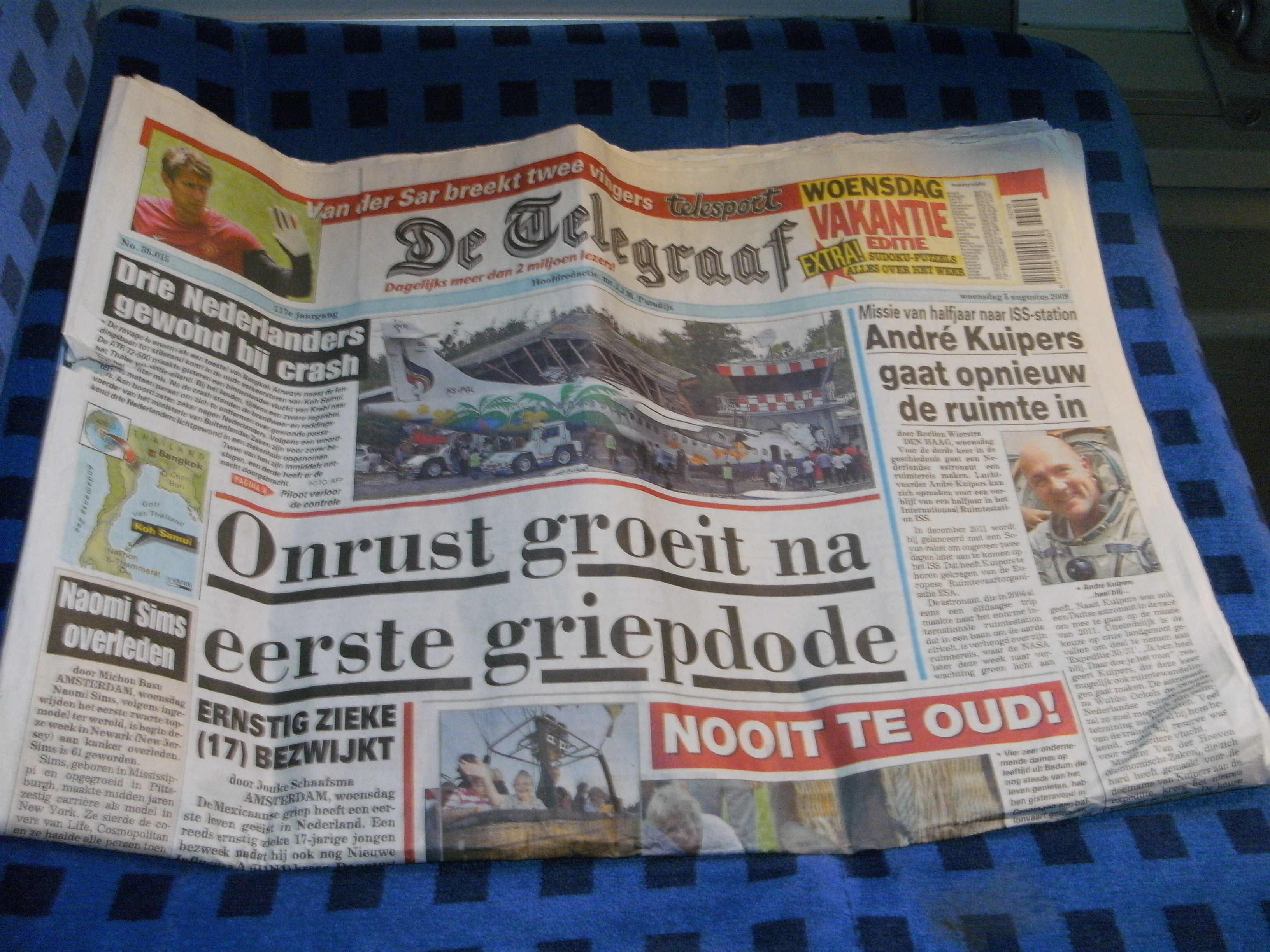 De Telegraaf, 5th of August 2009